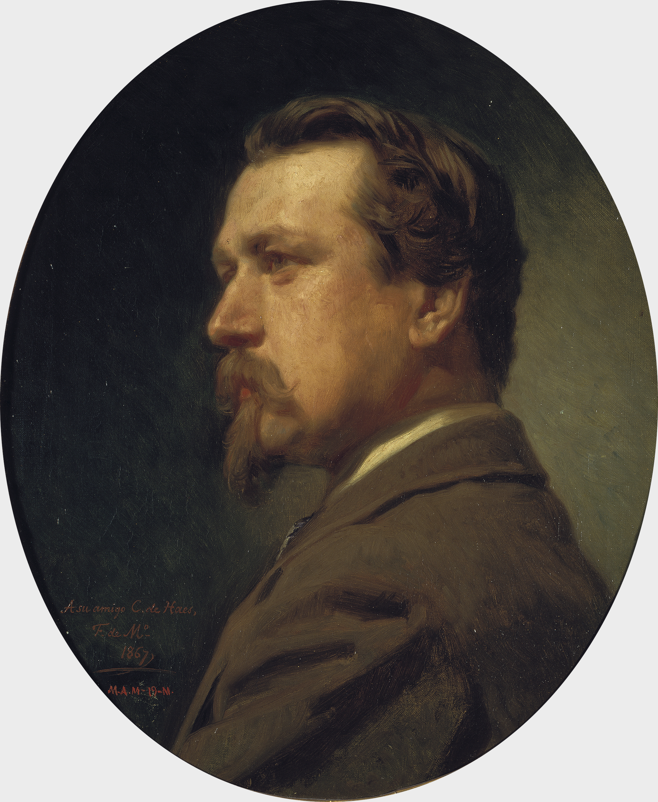 Unique oil portrait which preserves the image of the landscape painter Carlos de Haes, painted by his friend and colleague of chairs in the school of the Royal Academy of fine arts of San Fernando in Madrid. Signed and dedicated and dated in 1867. Catalogued in the meadow with the reference P04464. Measures: 53 x 43,5 cm Museo del Prado (Inventory)Native nameMuseo Nacional del PradoLocationMadrid, (Spain)Coordinates40° 24′ 51.34″ N, 3° 41′ 30.8″ W Established1819Web pagemuseodelprado.esAuthority control : Q160112 VIAF: 147181932 ISNI: 0000 0001 2294 2419 ULAN: 500270885 LCCN: n79064568 NLA: 36514982 WorldCat institution QS:P195,Q160112